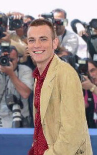 McGregor Ewan at Cannes in 2001. My own picture. Created by Rita Molnár 2001.